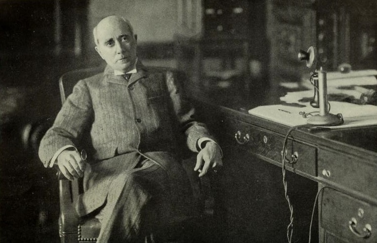 Portrait of William Mills Ivins